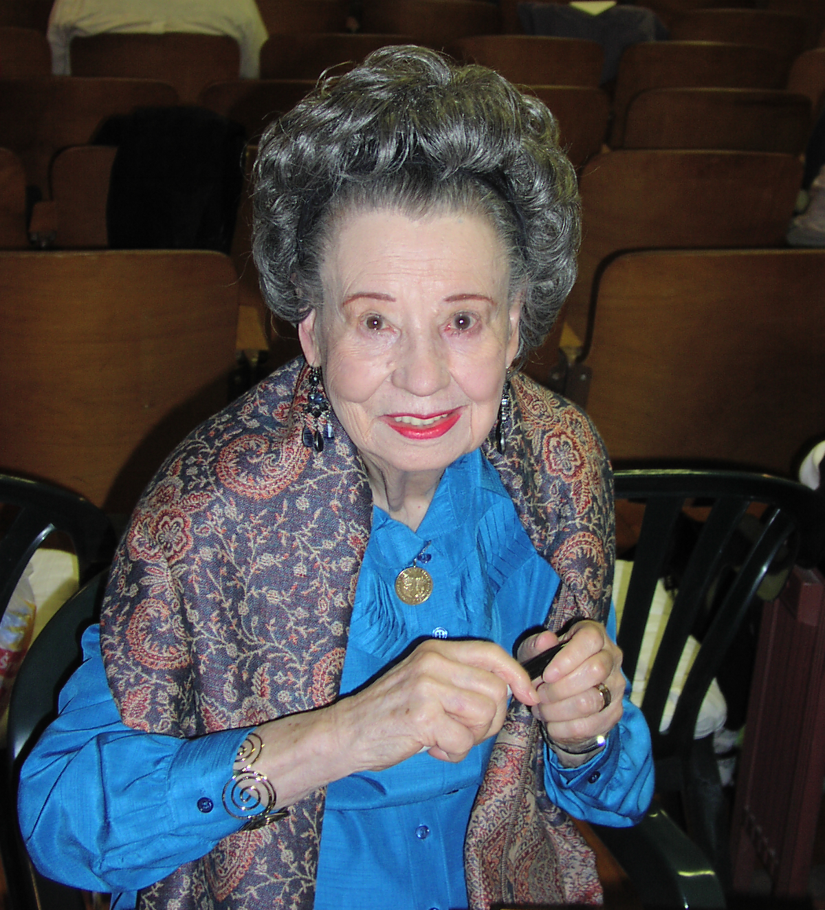 A photo of Baby Peggy (Diana Serra Cary)